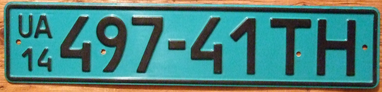 Plastic Ukrainian temporary license plate issued until about 2004 then replaced with the black on red temporary series with the Ukrainian flag on the left.